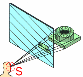 Illustration of Perspective distortion.